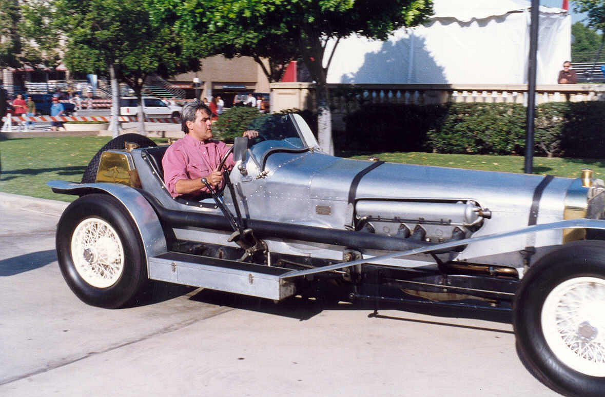 Jay Leno arriving to the 45th Primetime Emmy Awards in his Hispano-Suiza 8